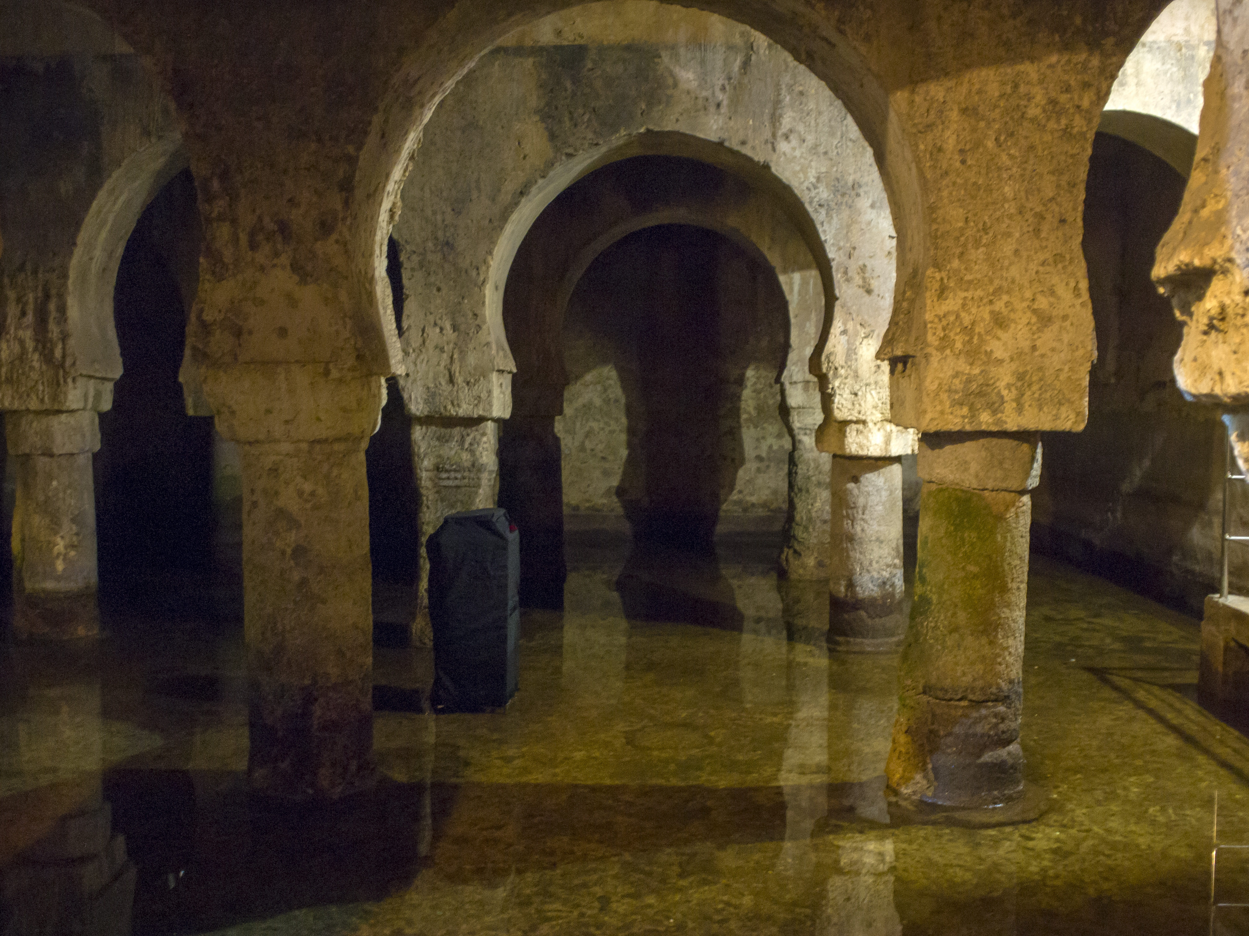 Aljibe del Palacio de las Veletas. Ciudad de Cáceres. Extremadura. España.